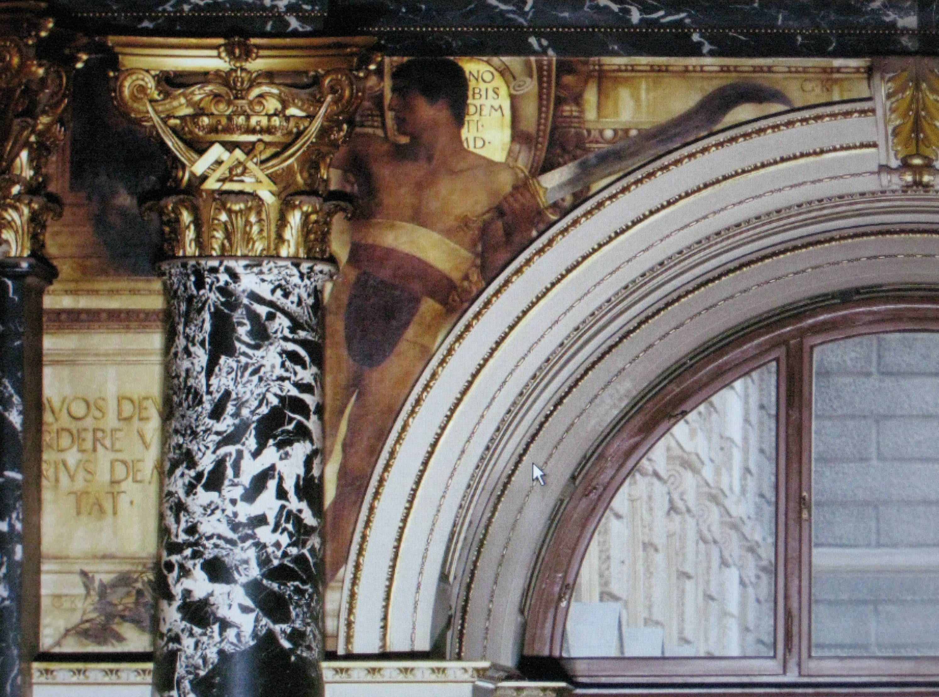 Gustav Klimt: Florence of the Cinquecento with intercolumniation, Ceiling above the grand staircase, Kunsthistorisches Museum, Vienna